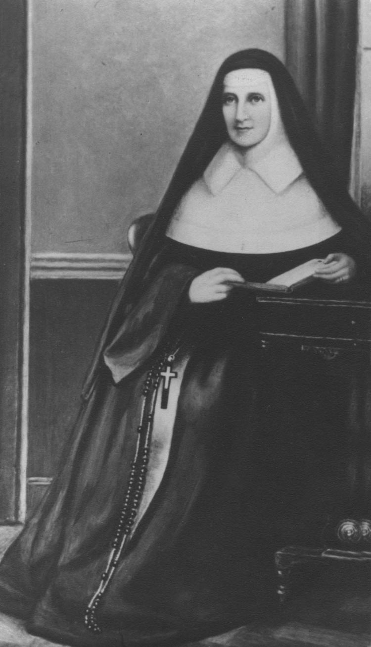 Daguerrotype with venerable Catherine McAuley